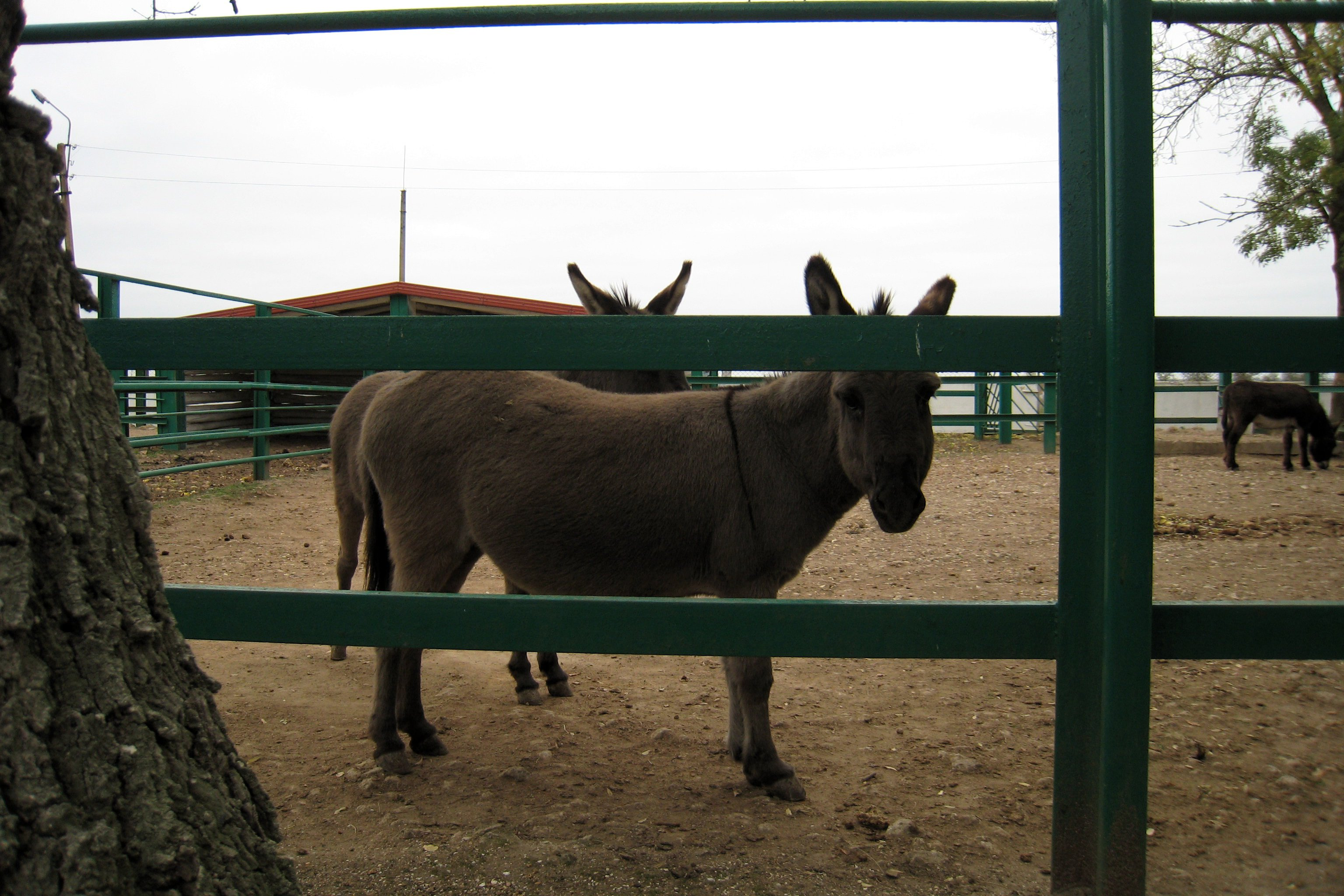 Donkeys in Askania Nova, a biosphere reserve (sanctuary) located in Kherson Oblast, Ukraine